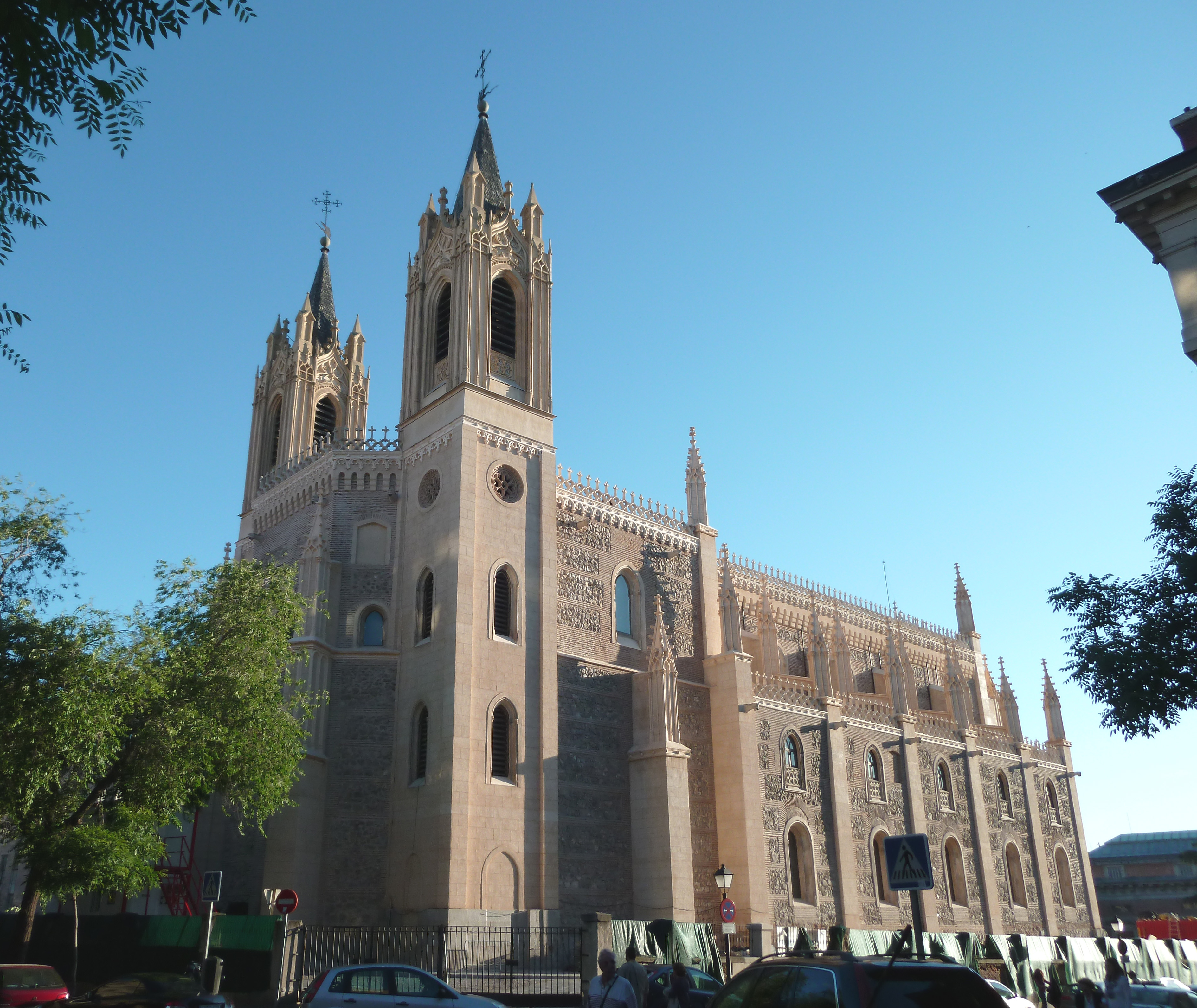 Façade of St. Jerome Church in Madrid (Spain).